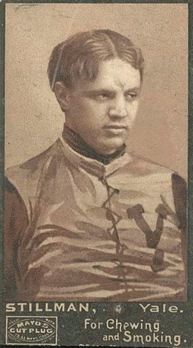 Mayo's Cut Plug football card of Philip Stillman